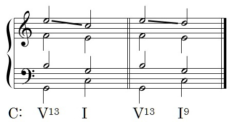 Voice leading for four-voice dominant thirteenth chords in the common practice period.